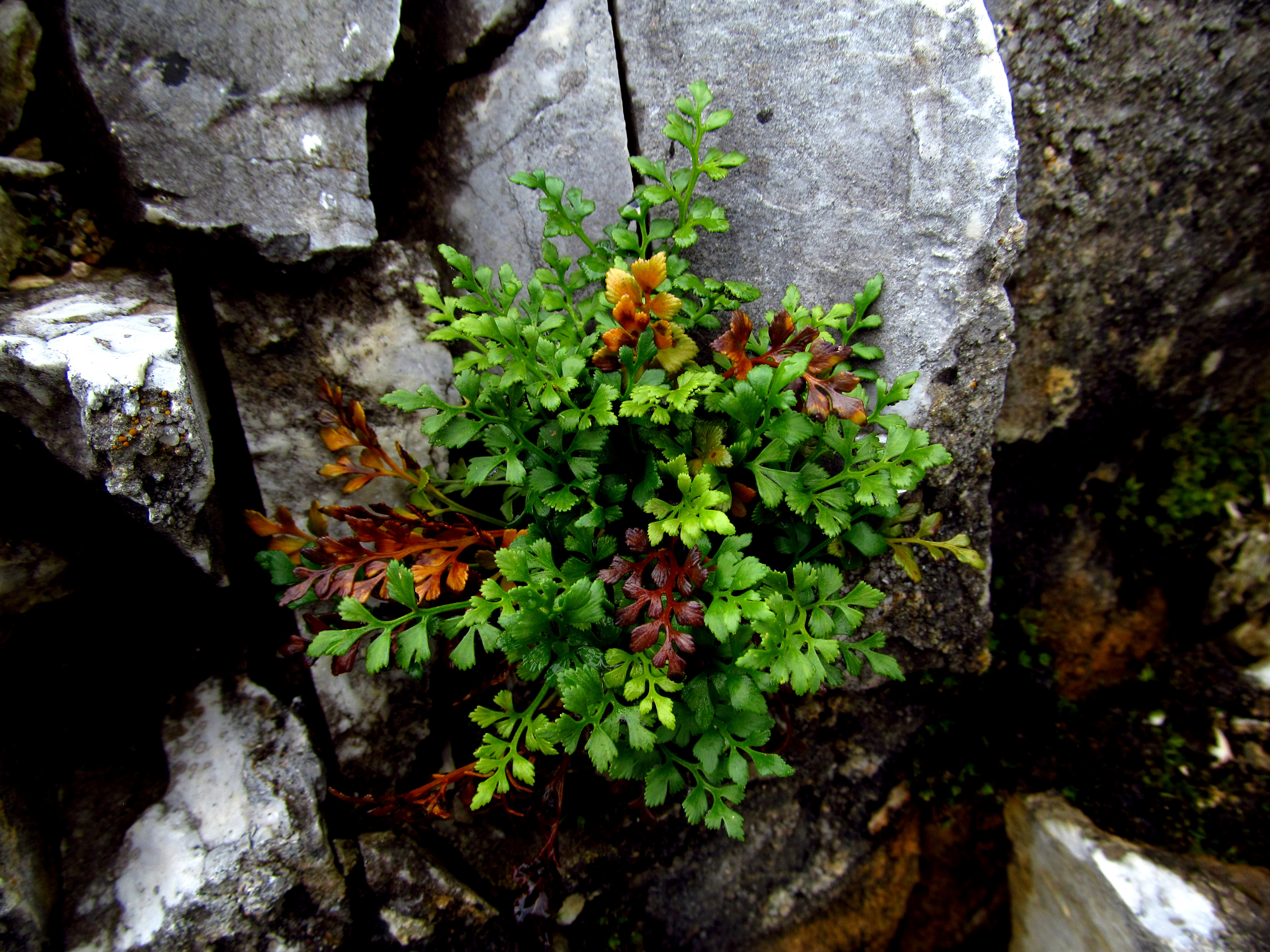 Wall-rue (Asplenium ruta-muraria)